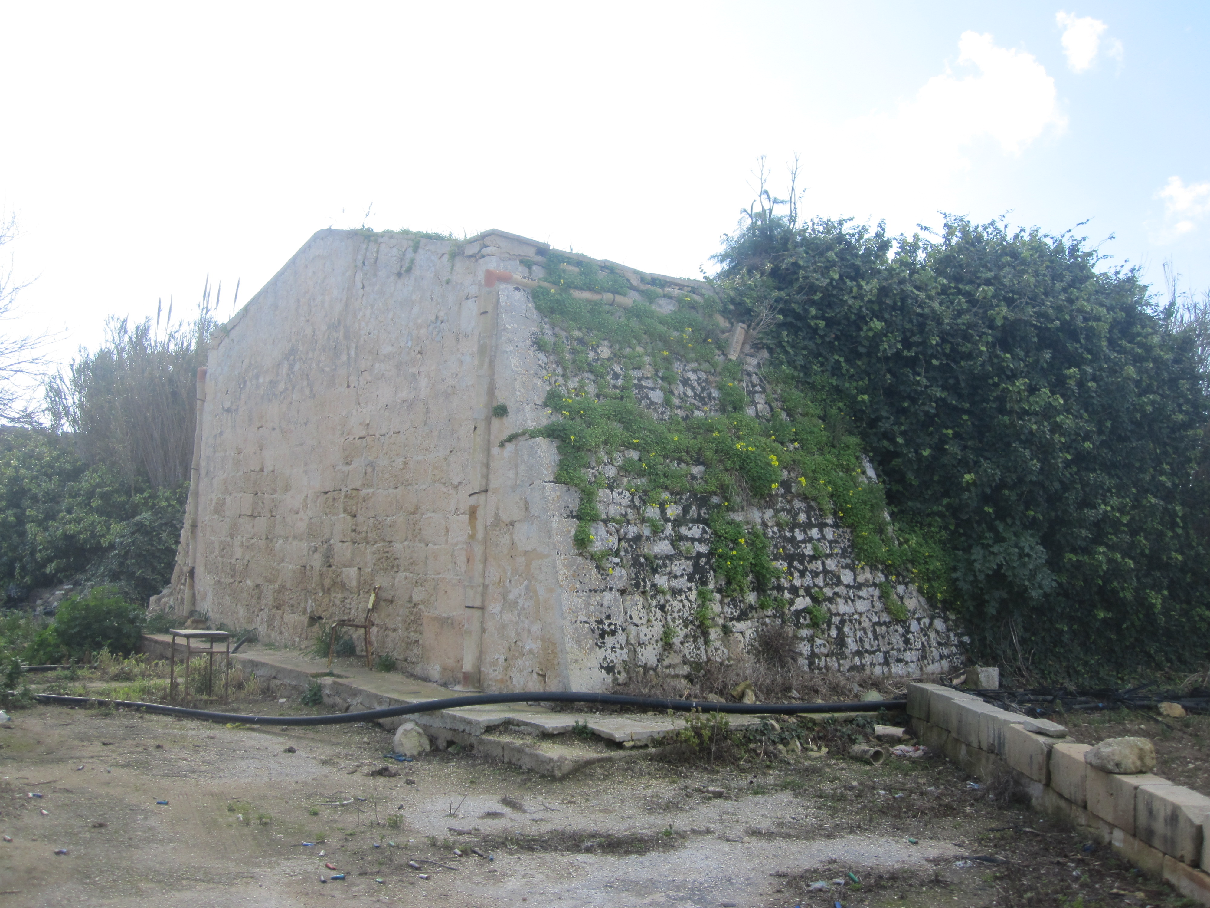 The Eastern and Southern part of the chapel of St Michael is-Sancier locate din limits of Rabat, Malta.